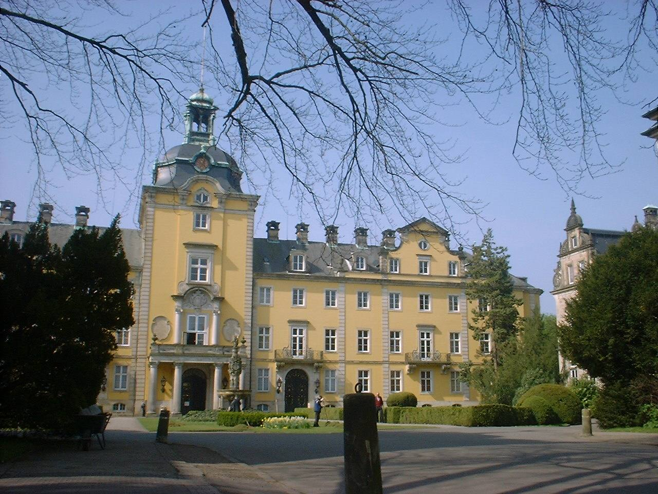 Bückeburg Palace in Bückeburg in Lower Saxony, Germany